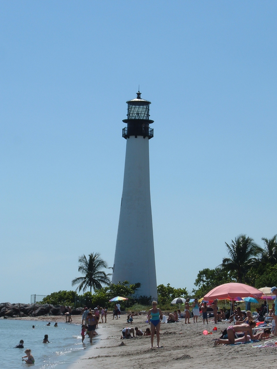 Cape Florida Light on Key Biscayne, October 2006, taken by uploader